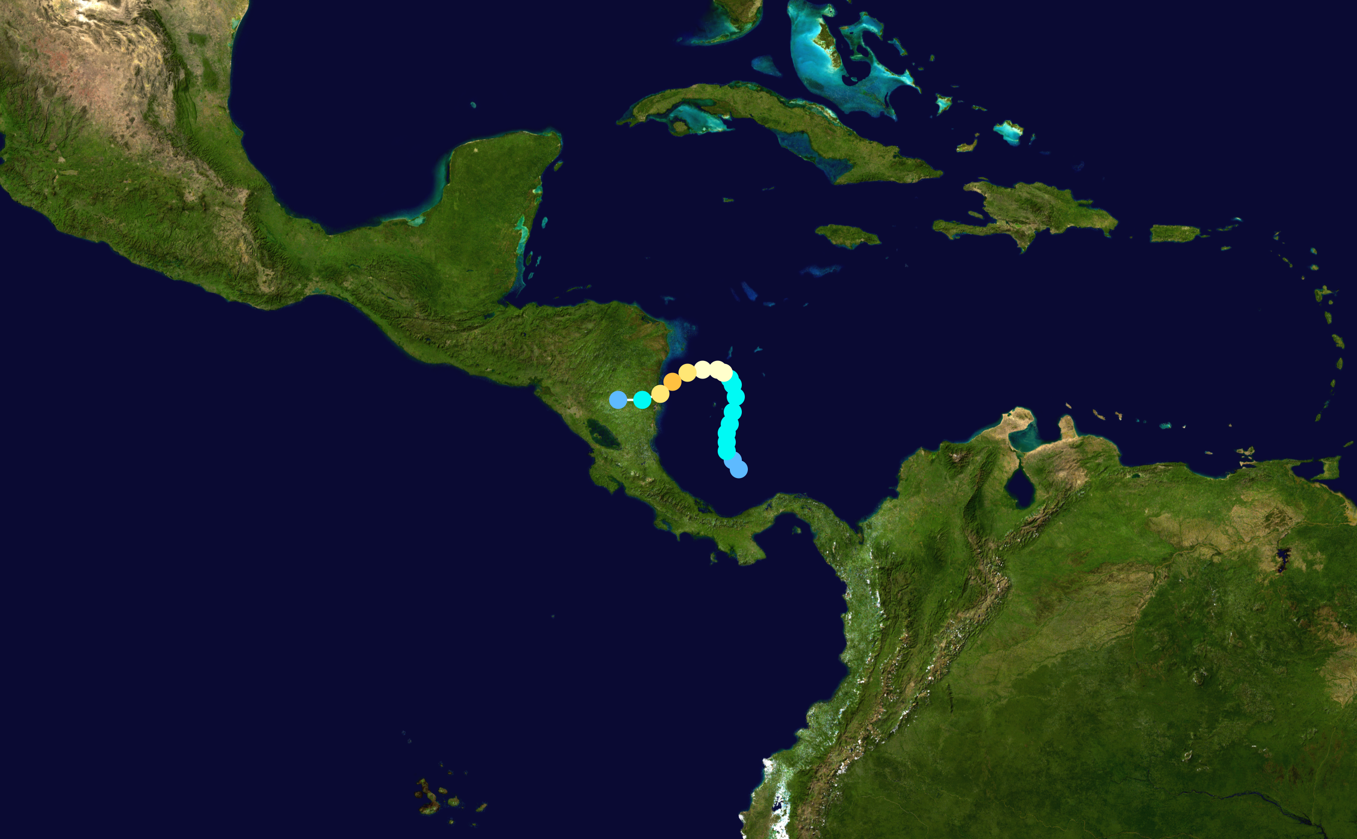 Track map of Hurricane Beta of the 2005 Atlantic hurricane season. The points show the location of the storm at 6-hour intervals. The colour represents the storm's maximum sustained wind speeds as classified in the Saffir–Simpson scale (see below), and the shape of the data points represent the nature of the storm, according to the legend below. Saffir–Simpson scale Tropical depression≤38 mph≤62 km/h Category 3111–129 mph178–208 km/h Tropical storm39–73 mph63–118 km/h Category 4130–156 mph209–251 km/h Category 174–95 mph119–153 km/h Category 5≥157 mph≥252 km/h Category 296–110 mph154–177 km/h Unknown Storm type Tropical cyclone Subtropical cyclone Extratropical cyclone / Remnant low / Tropical disturbance / Monsoon depression